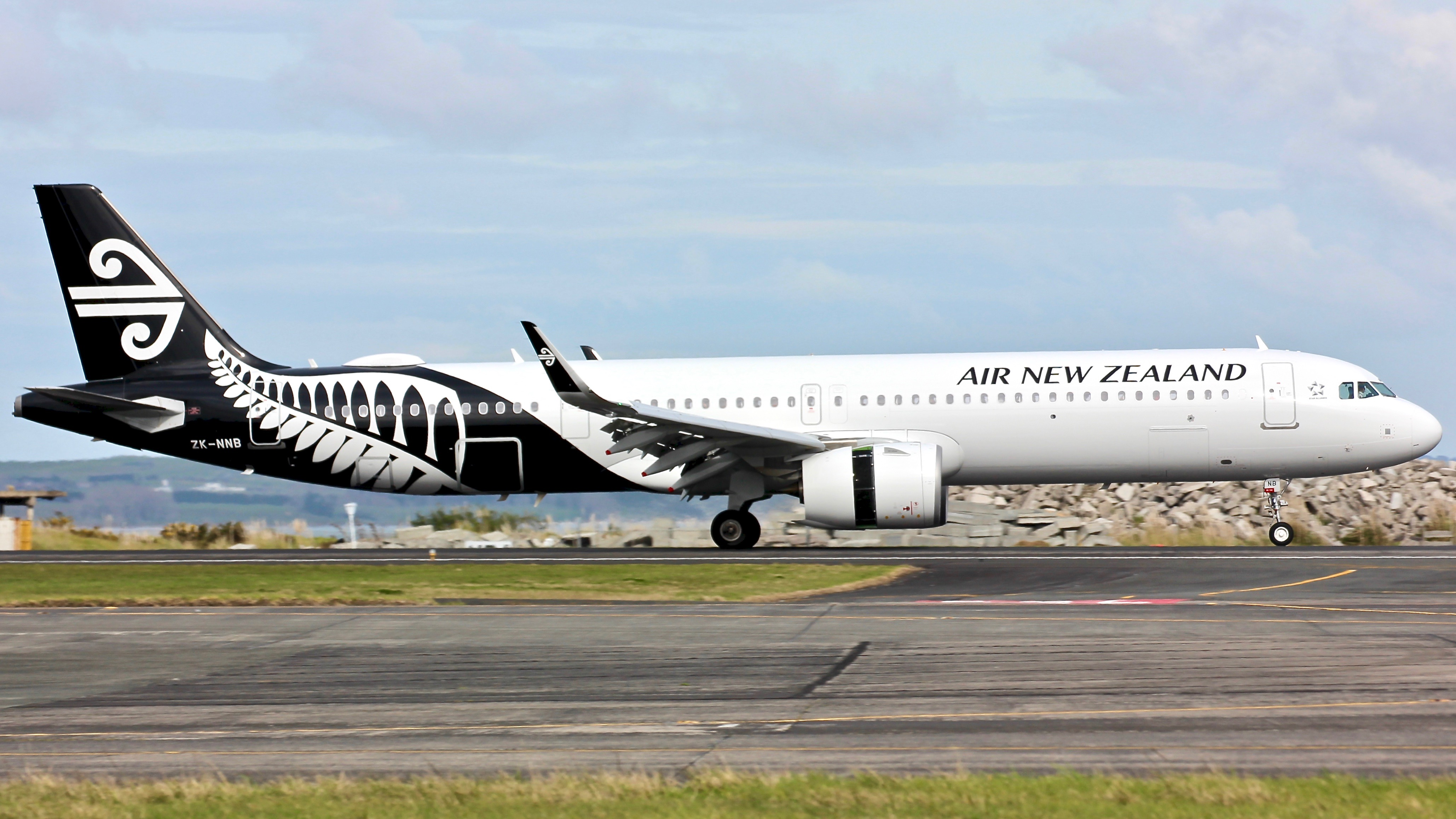 An Airbus A321neo